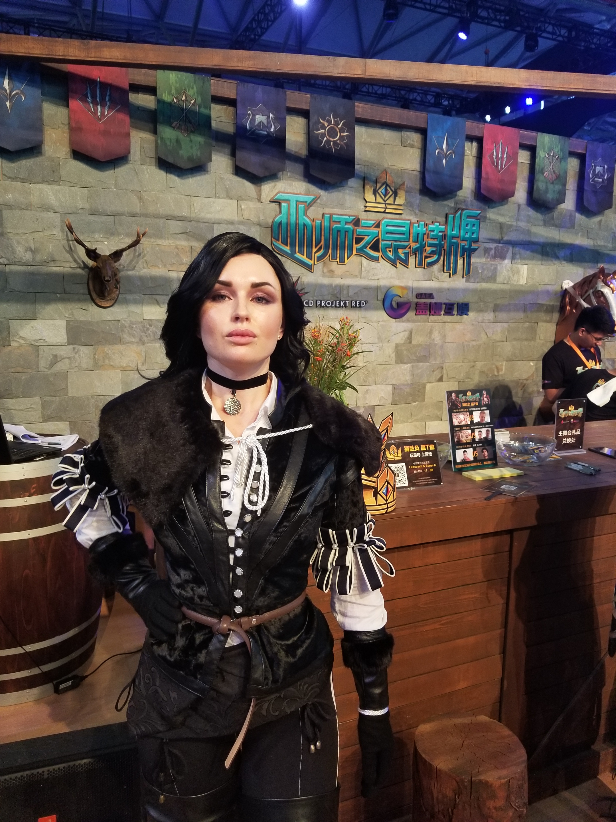 Yennefer of Vengerberg Cosplay at ChinaJoy 2017. Cosplayer: Galina Zhukovskaya